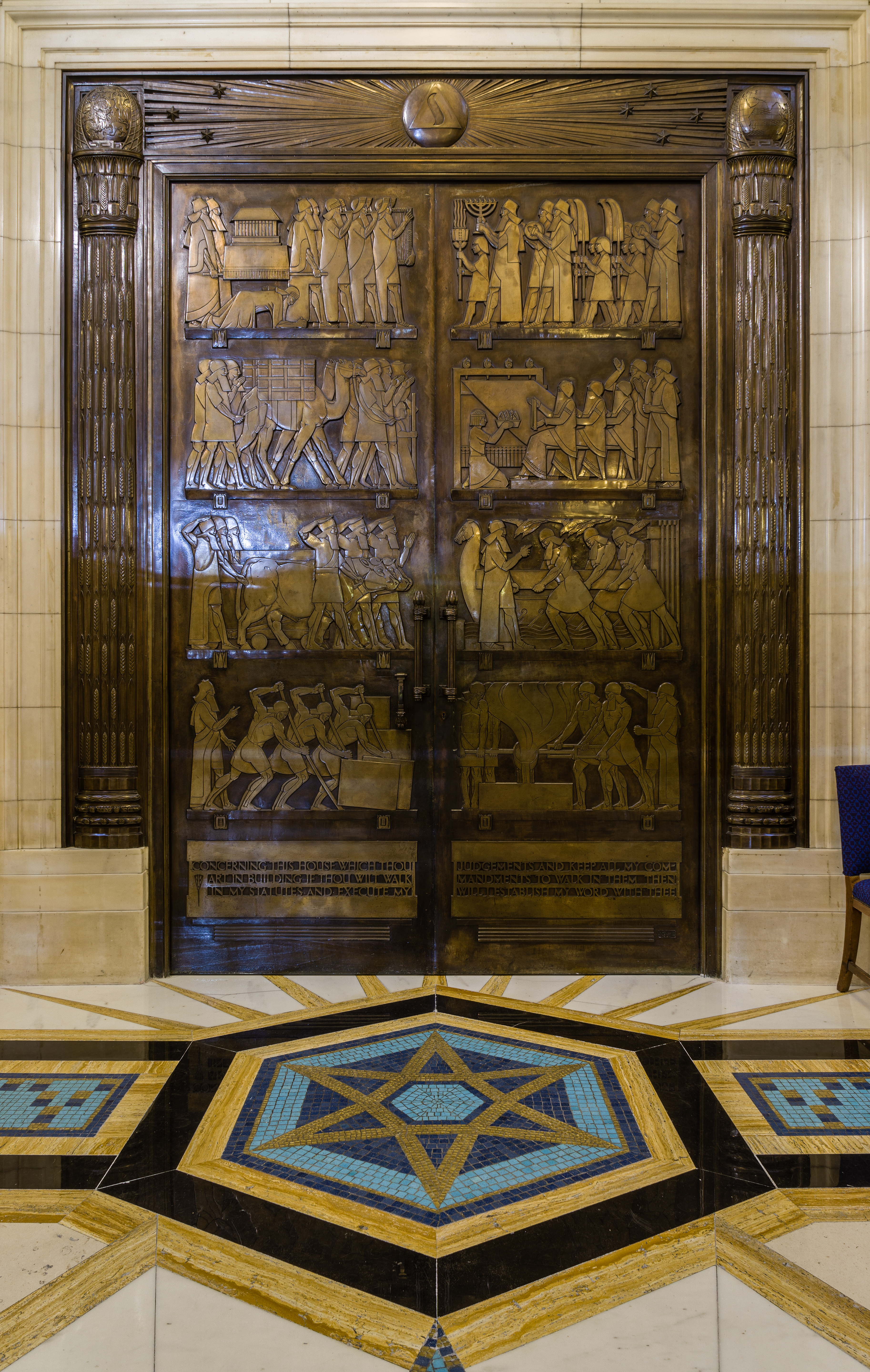 The bronze entrance doors to the temple in Freemasons' Hall, designed by Walter Gilbert. Each cast bronze door weighs 1.25 tons and is 12ft. by 4 ft. The panels depict various scenes from the Old Testament where man labours to build a great temple. The floor consists of marble and mosaic. Wikidata has entry Q1453586 with data related to this item.